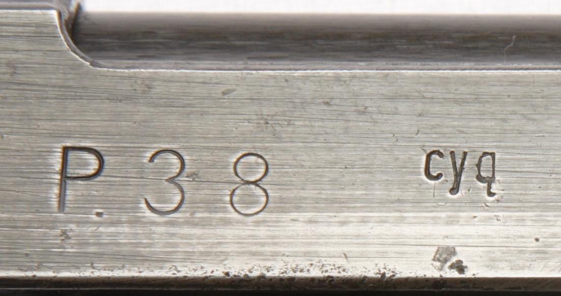 "P.38" and "cyq" markings stamped on a Spreewerk P.38 pistol produced in 1943.